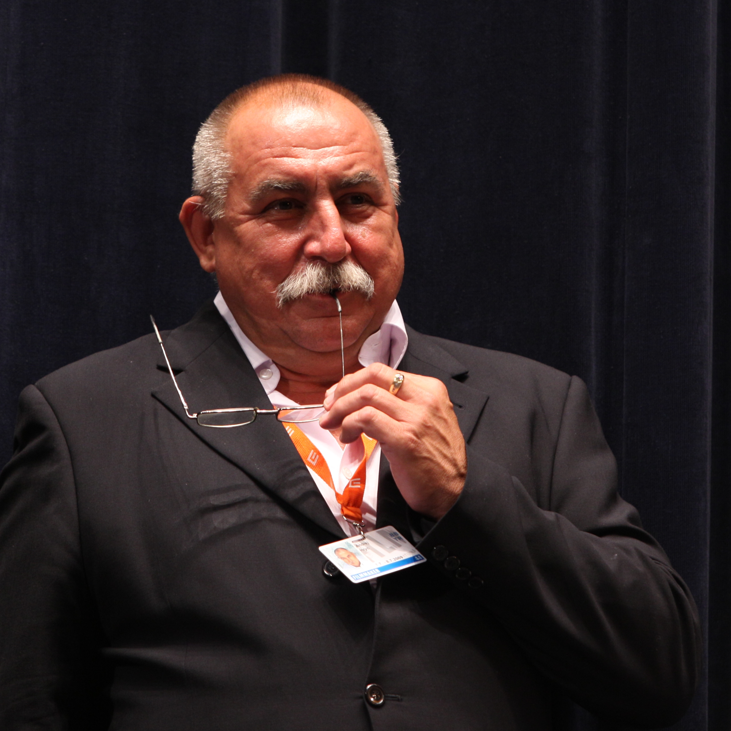 Actor Andrej Hryc before screening of T.M.A. at 44th Karlovy Vary International Film Festival